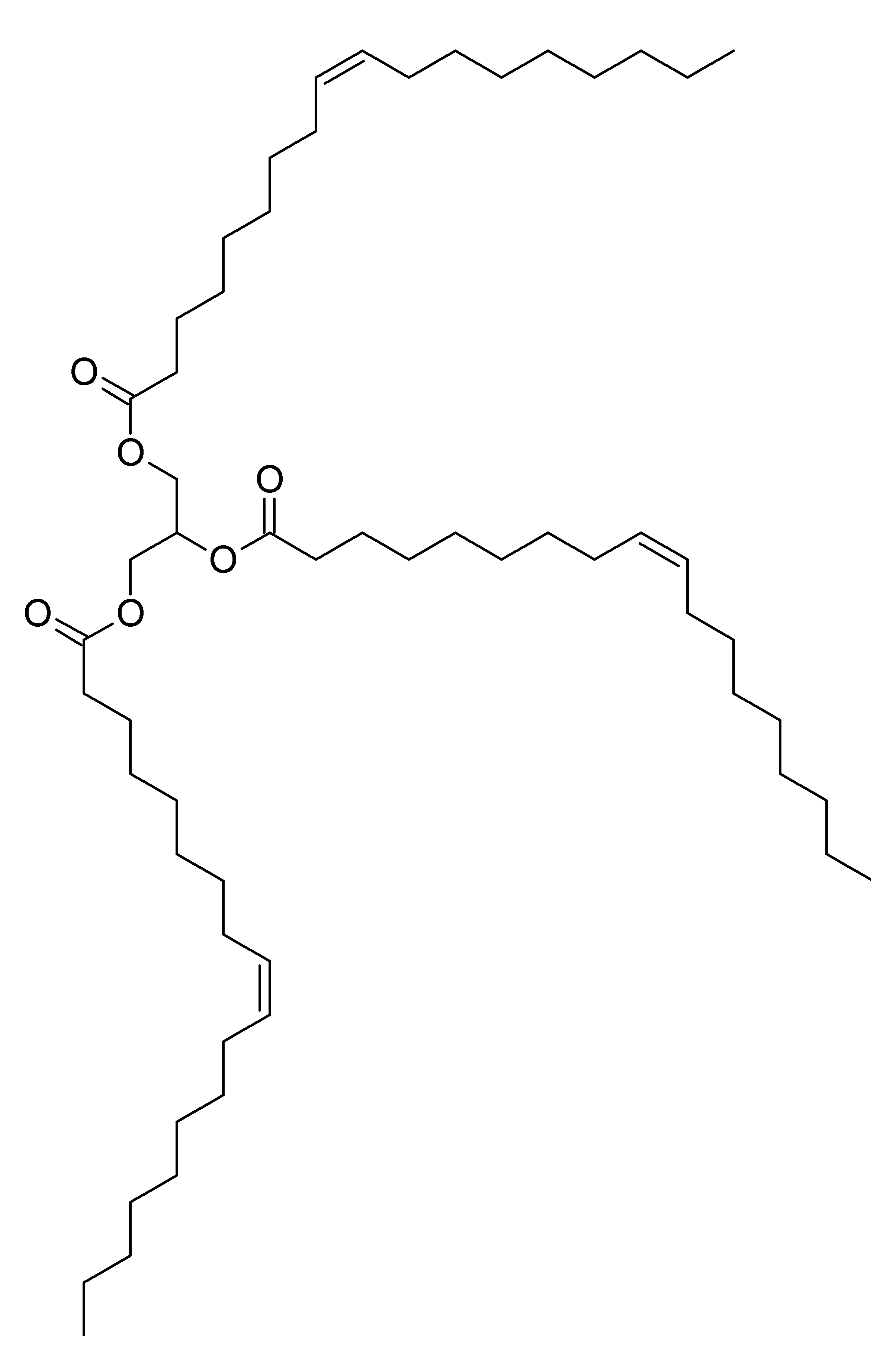 I made it myself using ACD/ChemSketch